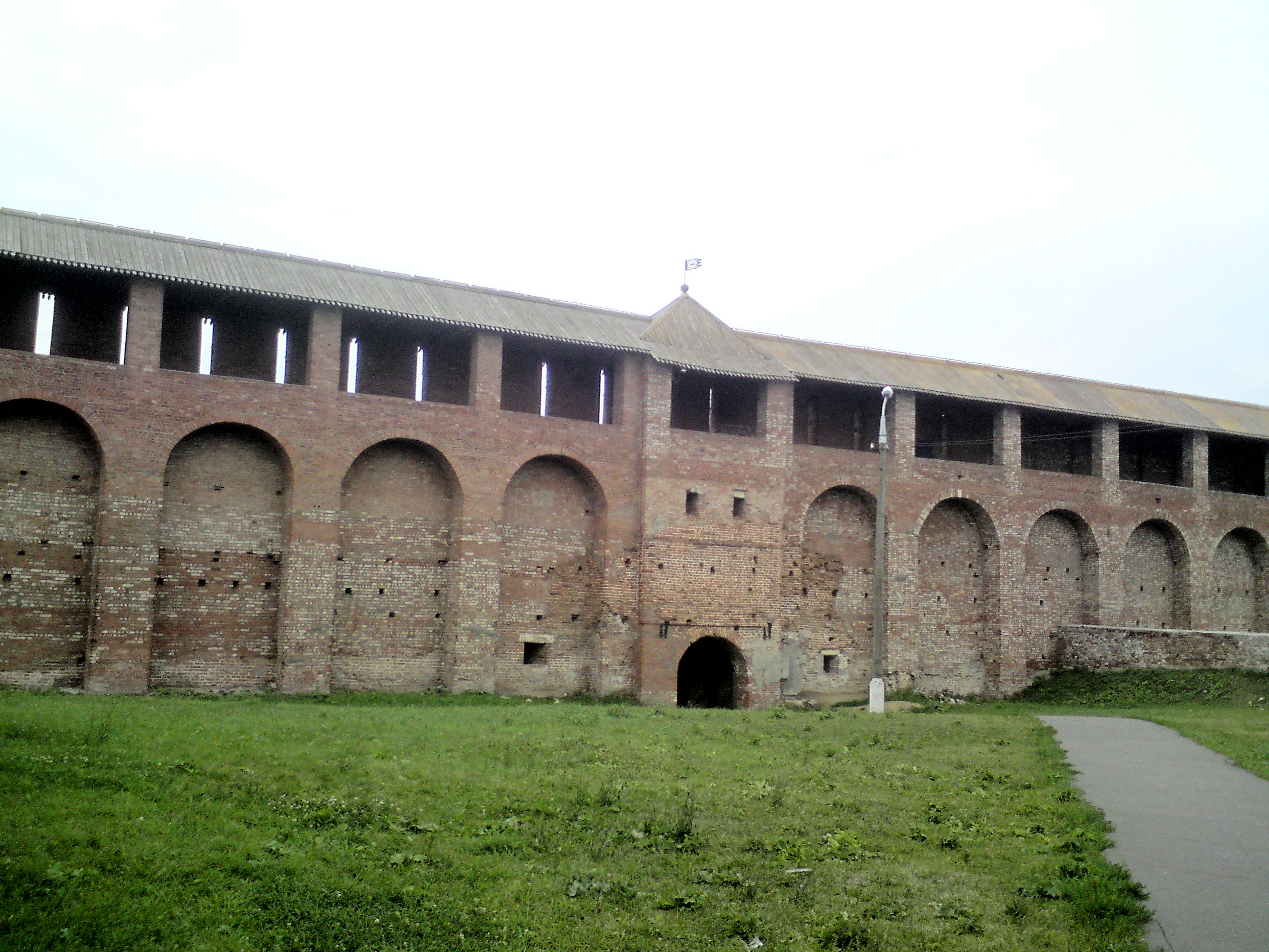 Kremlin of Kolomna. Wall Fragment.